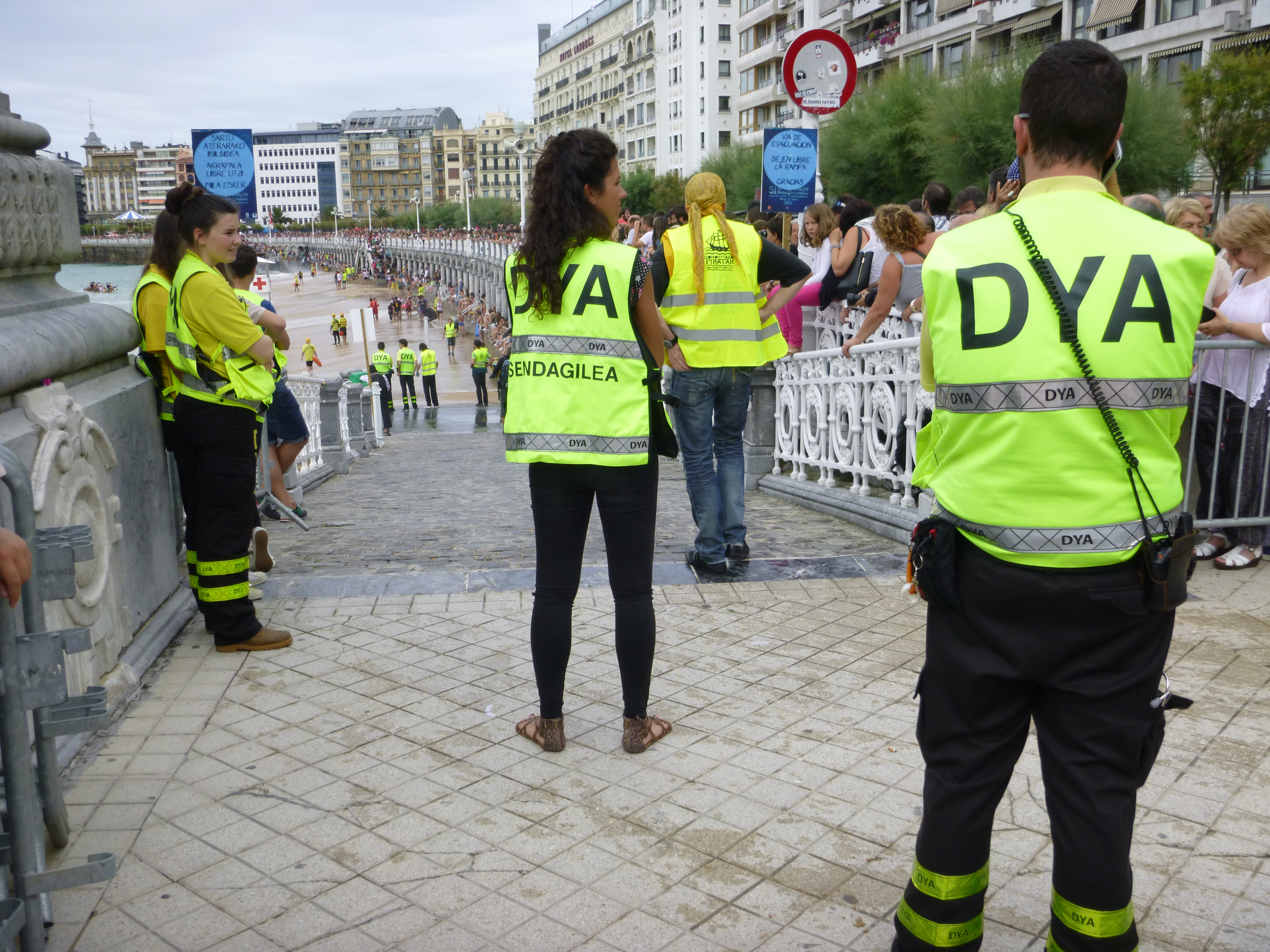 Abordatzera,2014